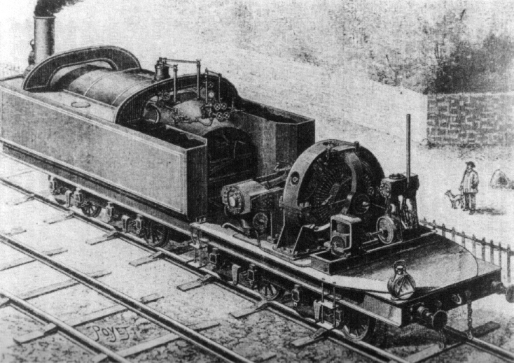 "Cutaway" wood engraving of the experimental "Fusée Electrique" steam locomotive with electric transmission designed by Jean Heilmann, Paris.